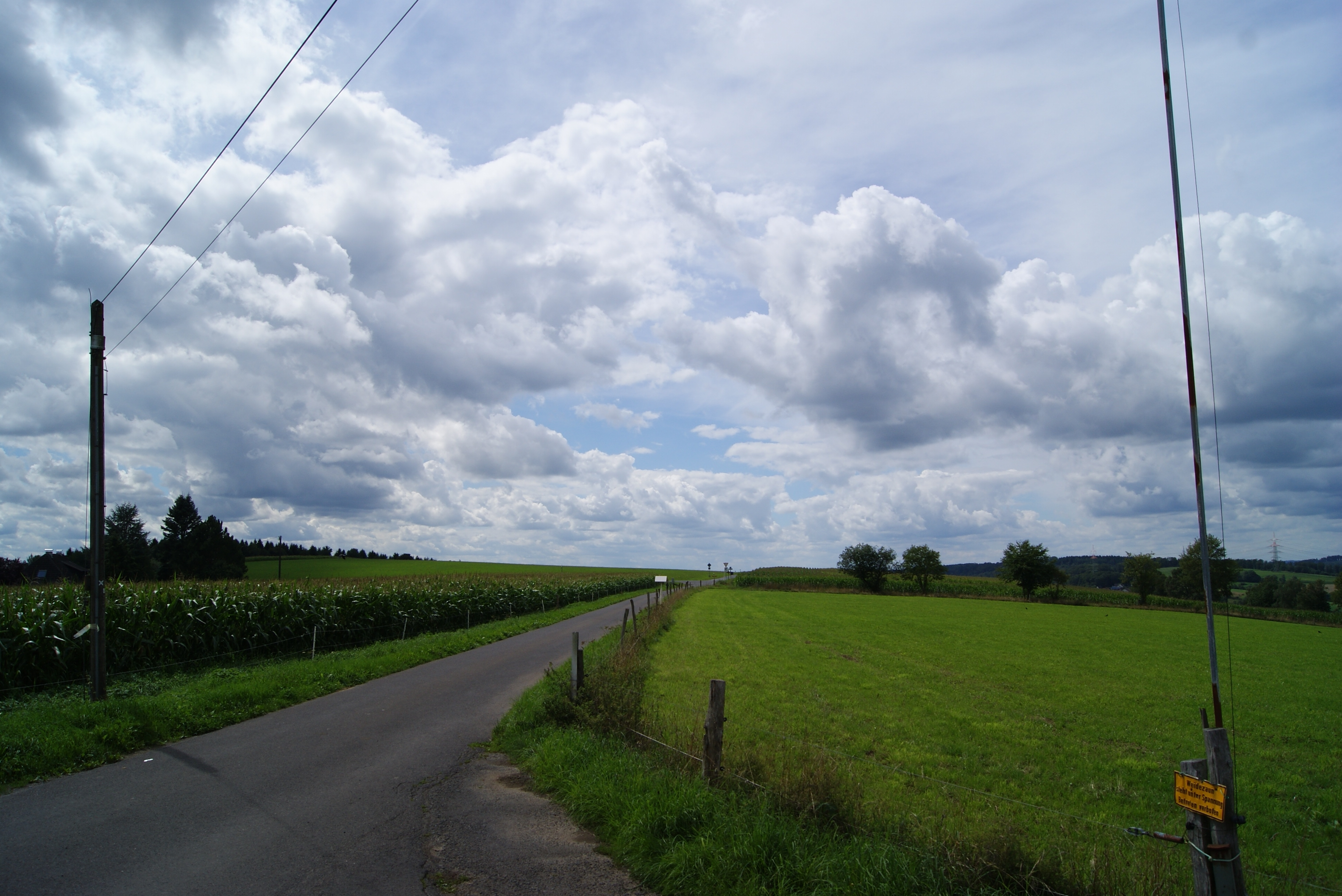 Sieg-high route / old post streat at Kalteich, near Katzwinkel (Sieg). Germany.